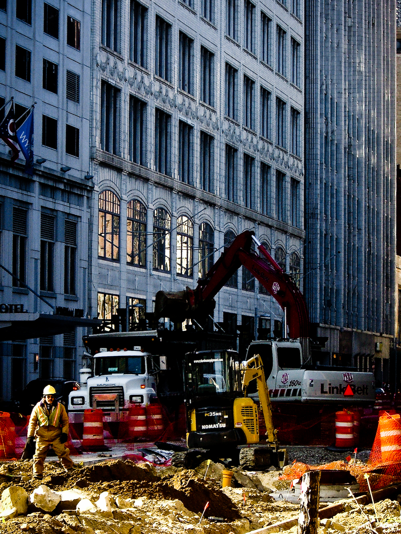 Construction of the Euclid Corridor project in downtown Cleveland, Ohio